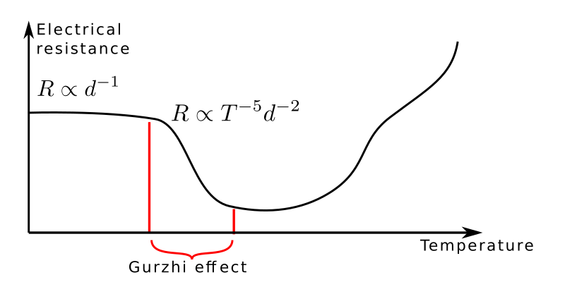 Gurzhi effect is decreasing of electric resistance of a conductor with increasng of a temperature